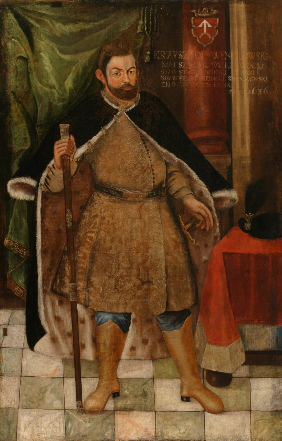 Portrait of Christopher Wiesiołowski